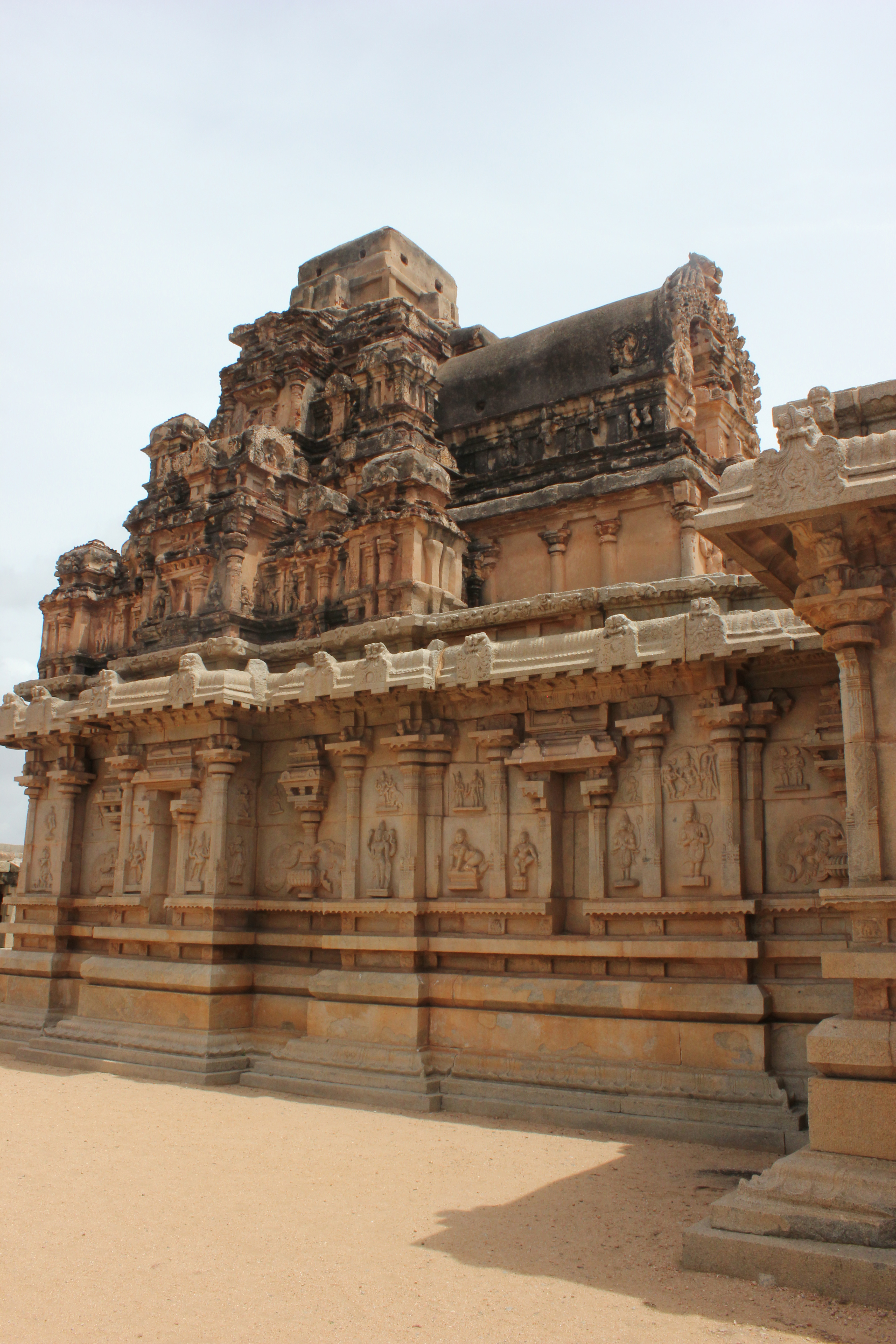 This photograph was taken by me in the Hazara Rama temple at Hampi, a UNESCO world heritage site in Bellary district, Karnataka state, India. The temple received patronage from many Vijayanagara empire kings including King Deva Raya I (1406-1422 AD) and King Achyuta Raya (1542 AD)